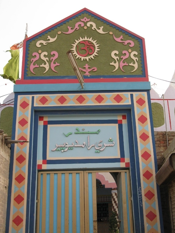 Gate of Ramapir Temple Tandoallahyar